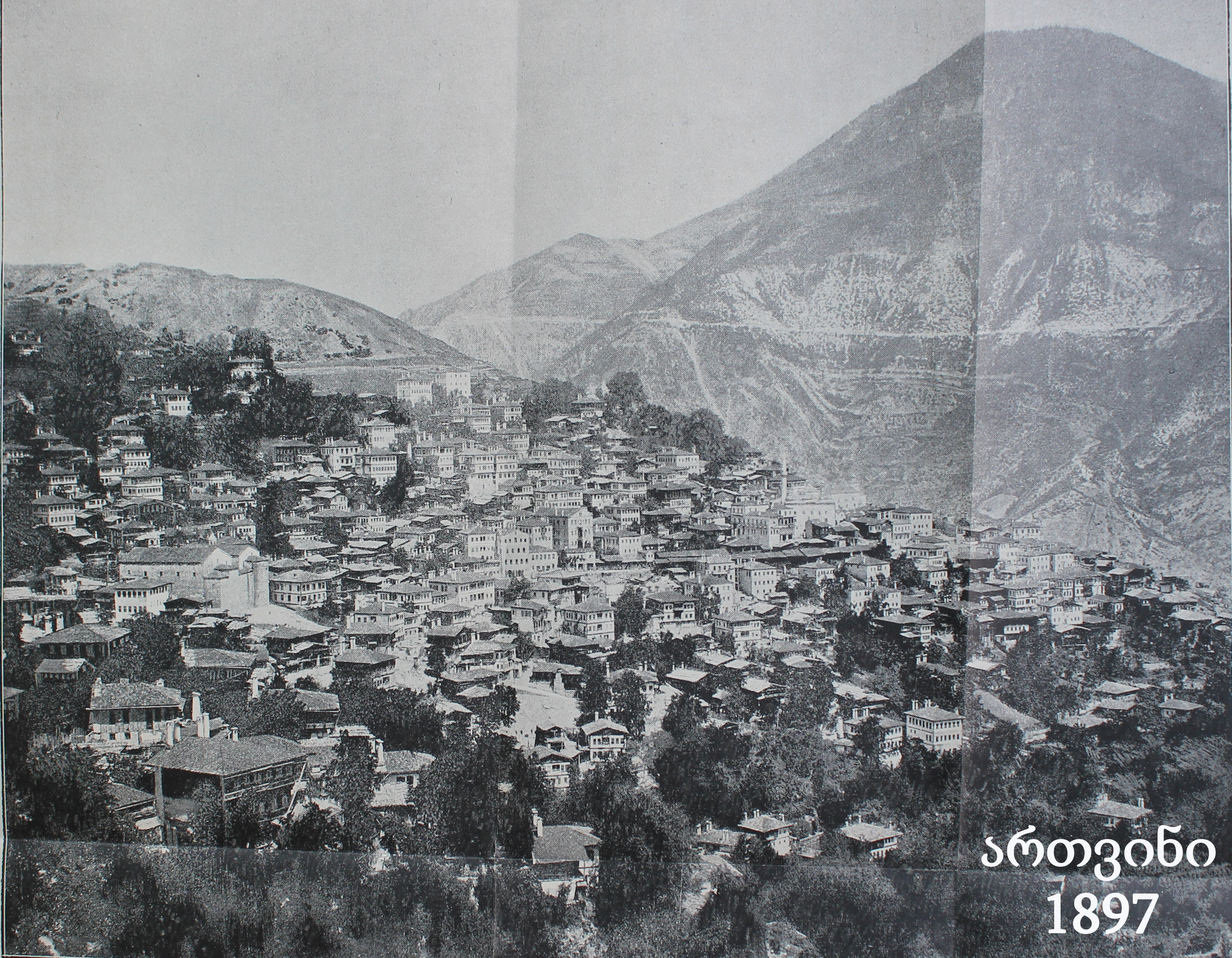 Artvin town, historical Klarjeti province (the part of "Turkish Georgia"), Turkey, 1897